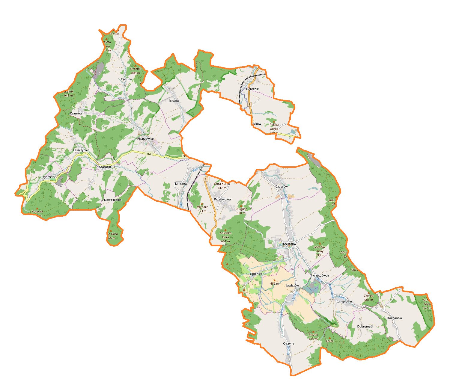 Location map